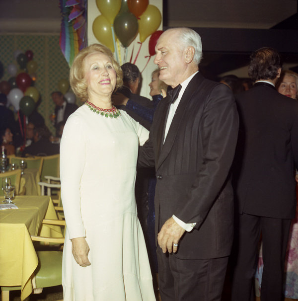 Local call number: BM00242 Title: Estee Lauder with oilman Algur Meadows celebrating New Year's at Club 265 on Royal Poinciana Way. Date: December 31, 1972 Physical descrip: 1 photonegative - col. - 60 mm. Series Title: Bert Morgan Collection Repository: State Library and Archives of Florida, 500 S. Bronough St., Tallahassee, FL 32399-0250 USA. Contact: 850.245.6700. Persistent URL